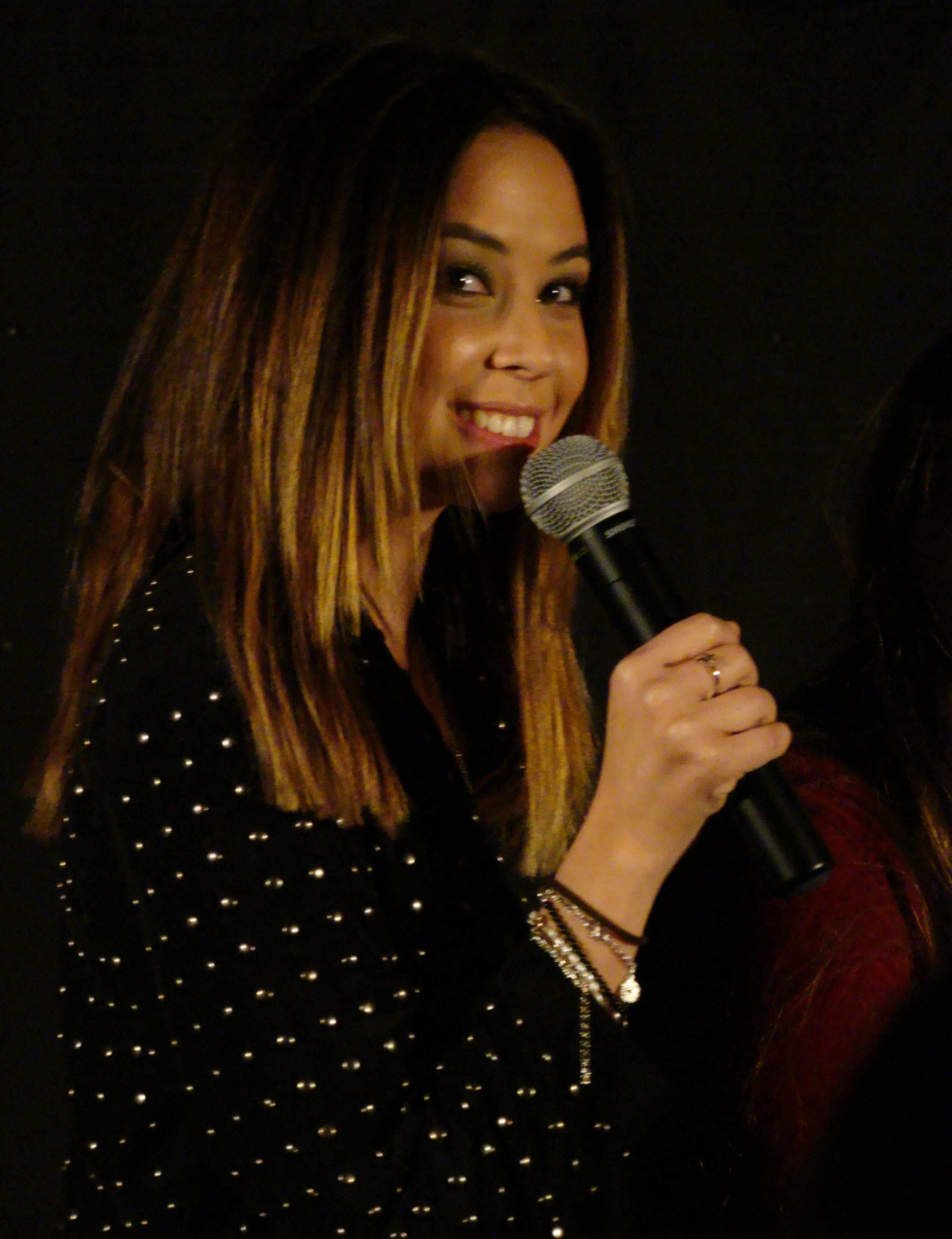 Interview with Malese Jow from The Vampire Diaries in June 2012.